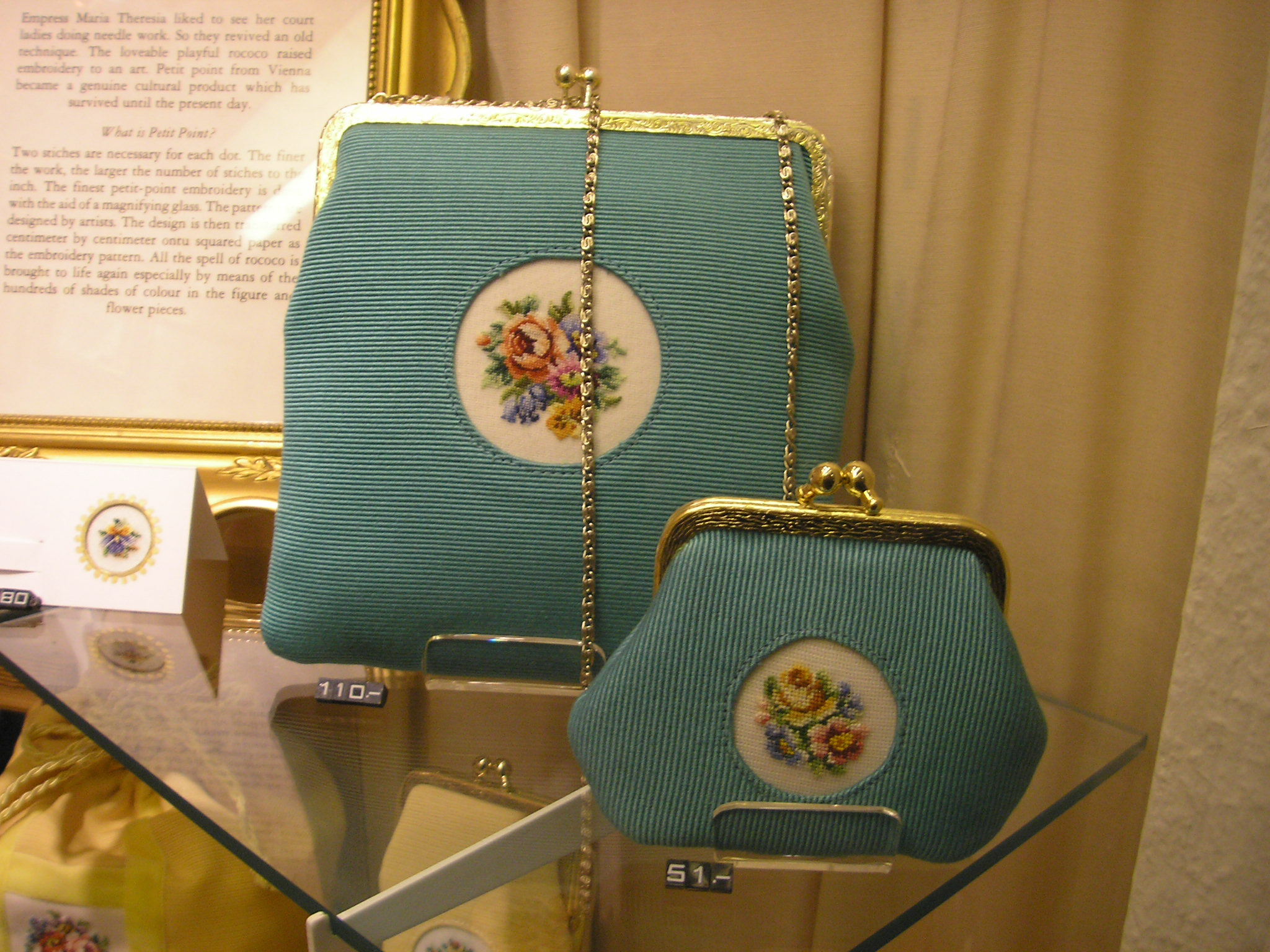 petit point stitchwork at a shop in Vienna's I. district.